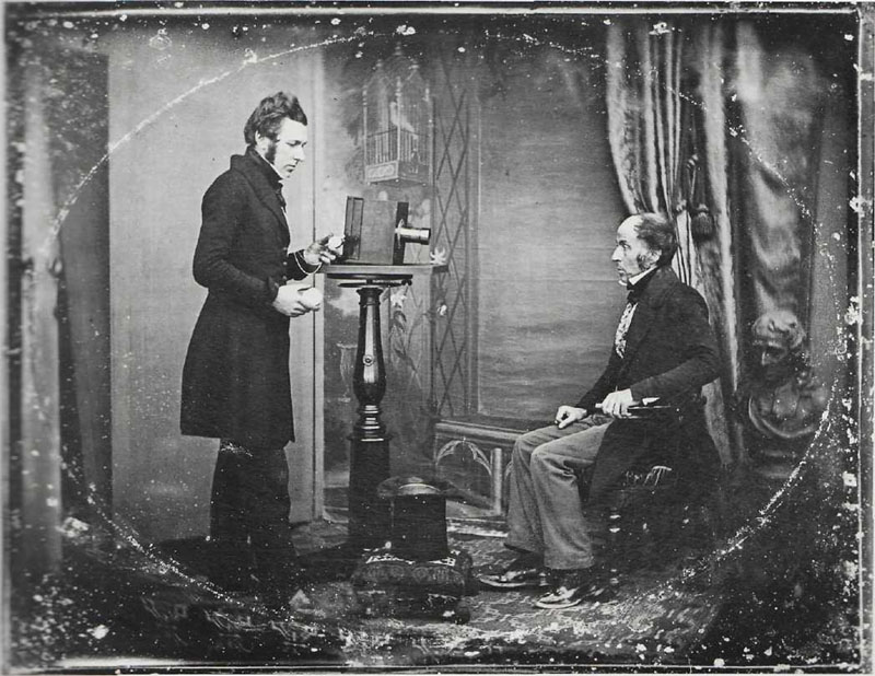 Jabez Hogg Making a Portrait in Richard Beard's Studio